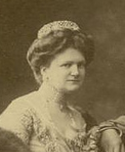 Princess Eleonore of Solms-Hohensolms-Lich (1871-1937), Grand Duchess of Hesse and by Rhine